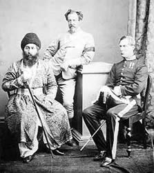 Sher Ali Khan, Emir of Afghanistan, is sitting with Cd Charles Chamberlain and Sir Richard F. Pollock of Great Britain, 1869.